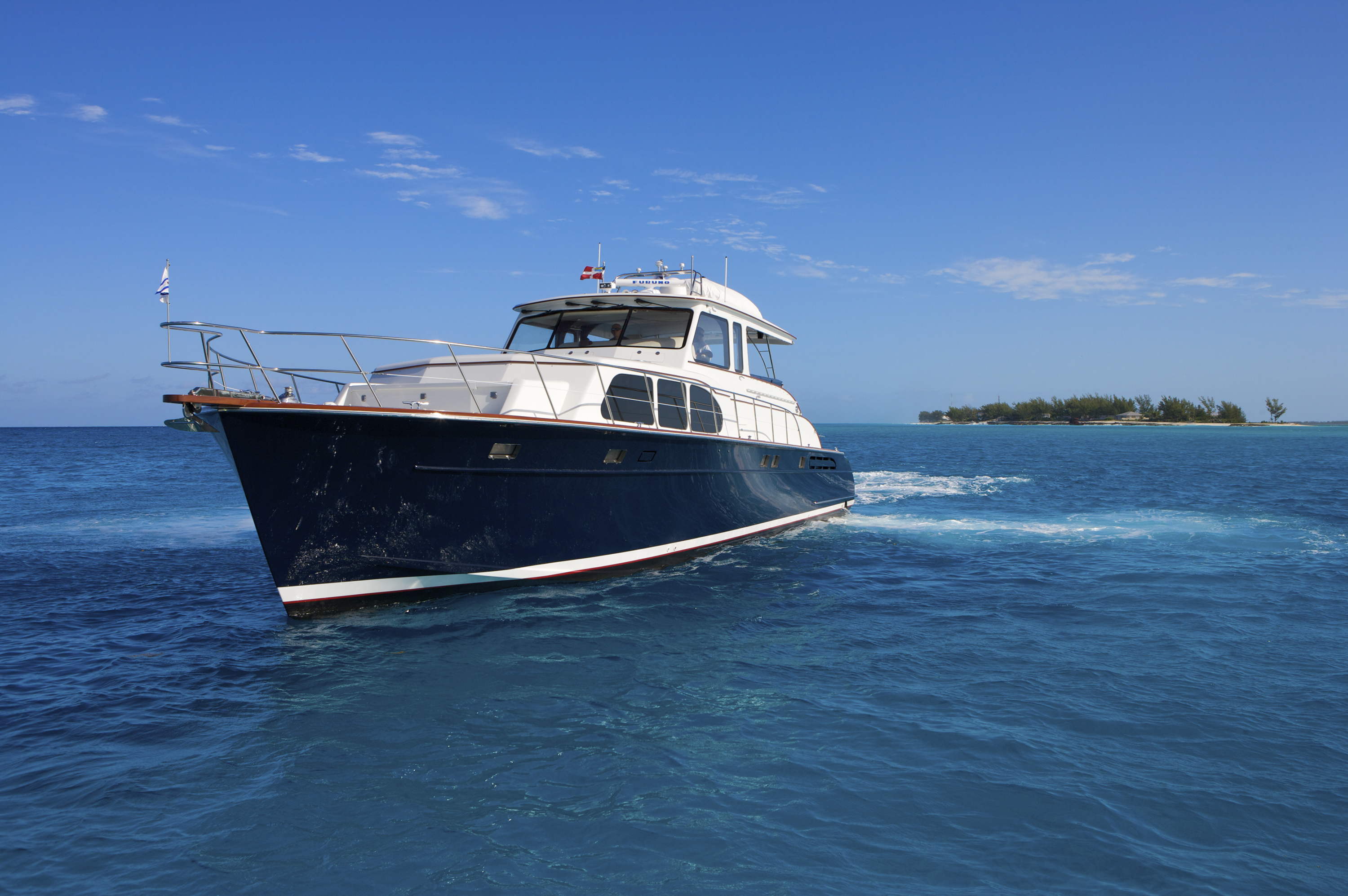 Linwood 56 Jet Drive - La Belle Hélène. Bimini, Bahamas